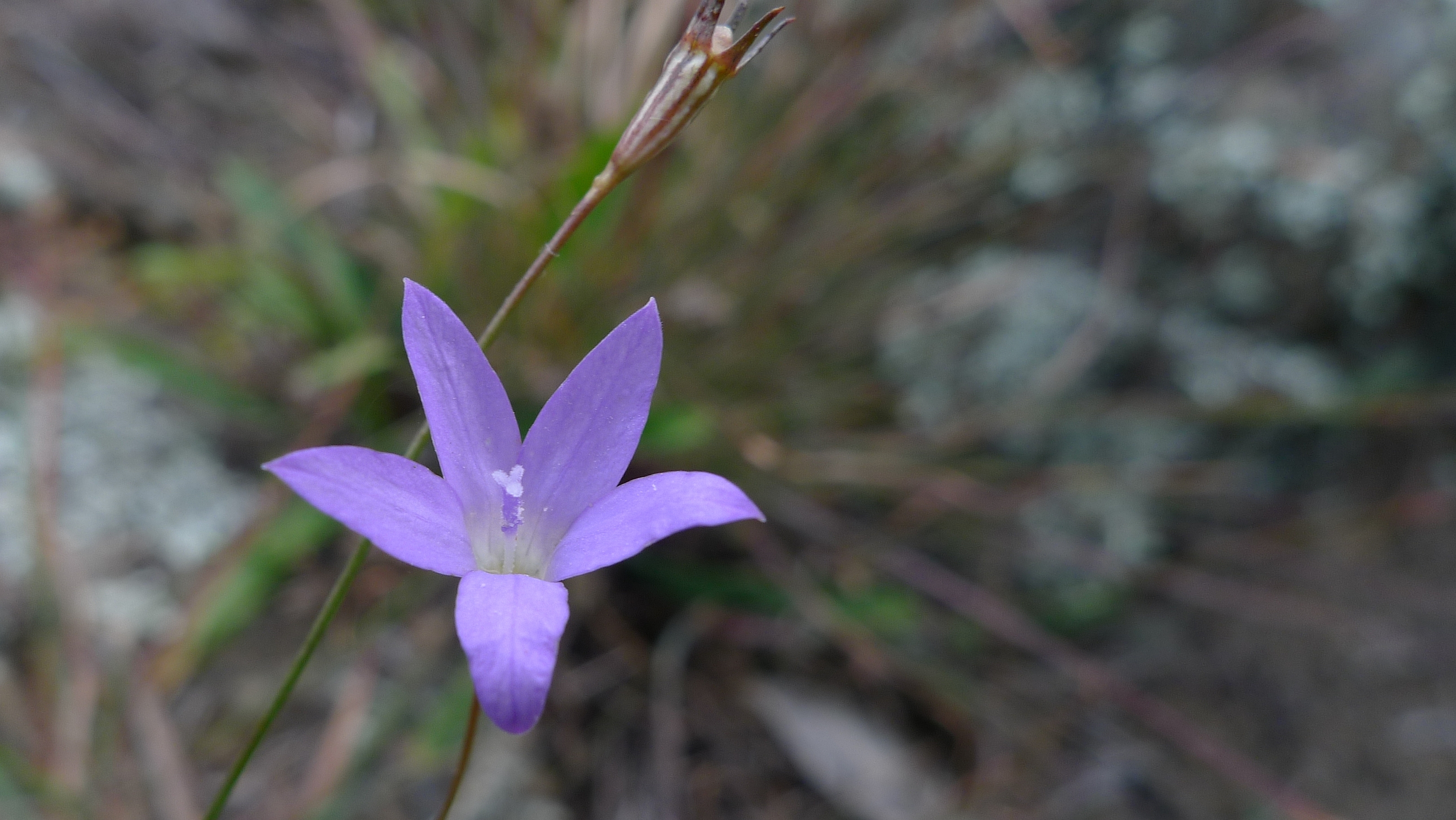 Bluebell, probably Wahlenbergia luteola. Apsley Falls, Oxley Wild Rivers National Park, NSW Australia, April 2013.